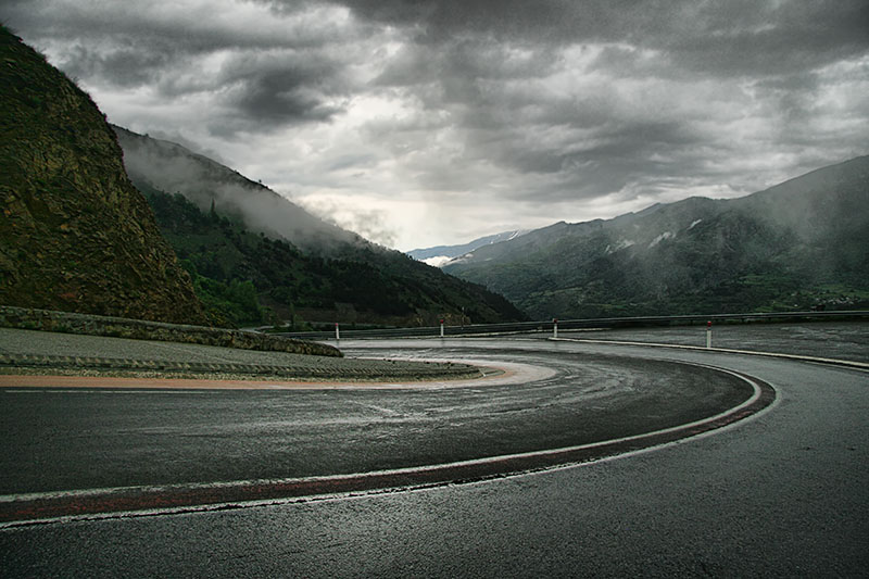 Road in the French Pyrenees